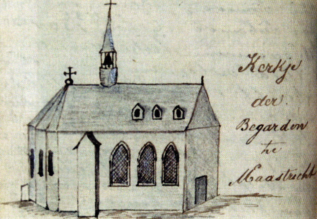 Maastricht, the Netherlands. Drawing of the former Bogaardenkapel, the chapel of the Begards monastery at Witmakersstraat. 19th-century drawing (reconstruction?) by Charles van der Noordaa.